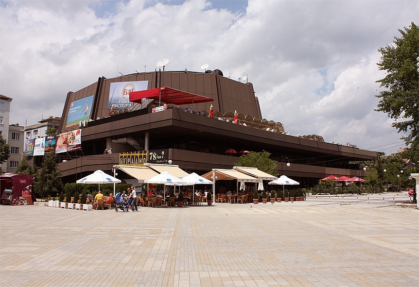 Festival and Congres Centre-Varna